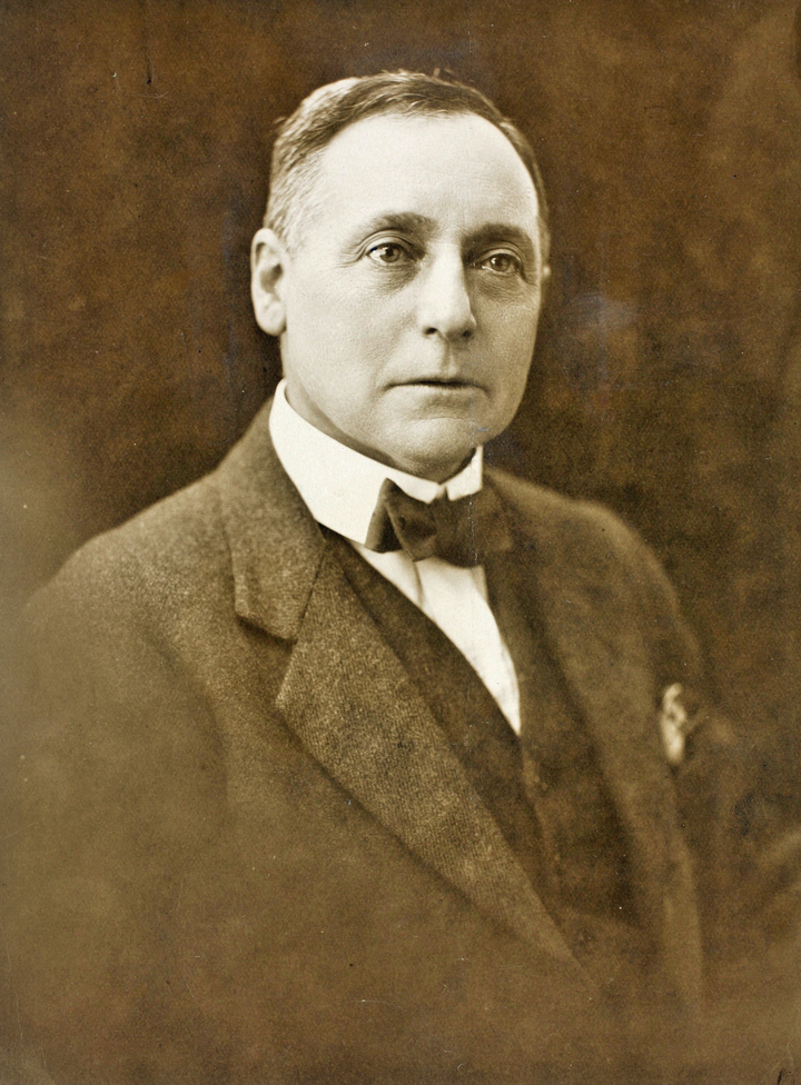 Percy J Marks, solicitor and historian. Marks was born in Australia and died in Australia.